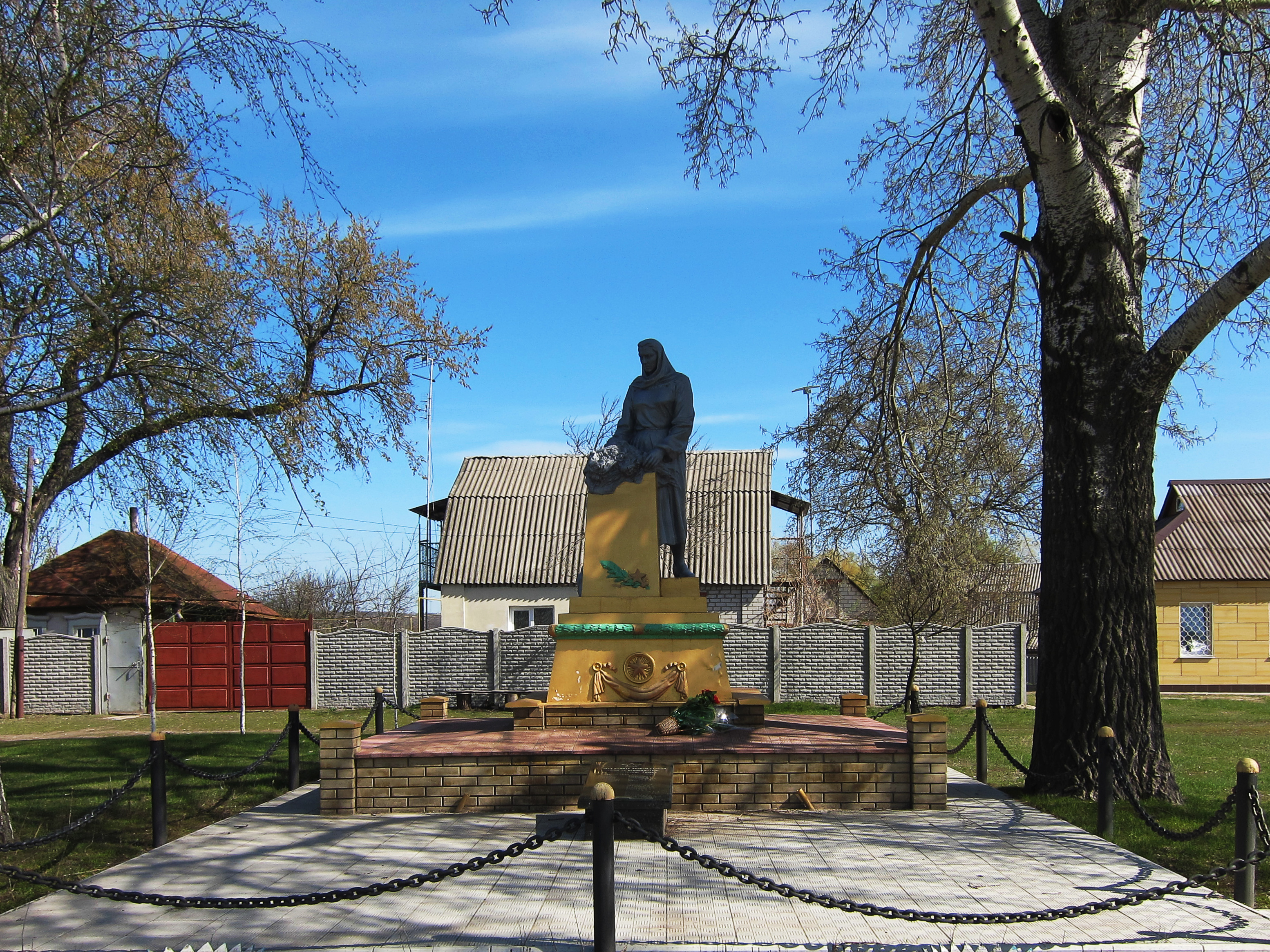 Monument to Soldiers-Heroes, Cherkaski Tyshky